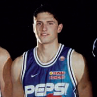 Photo taken and released on Wikimedia directly by the basketball club.